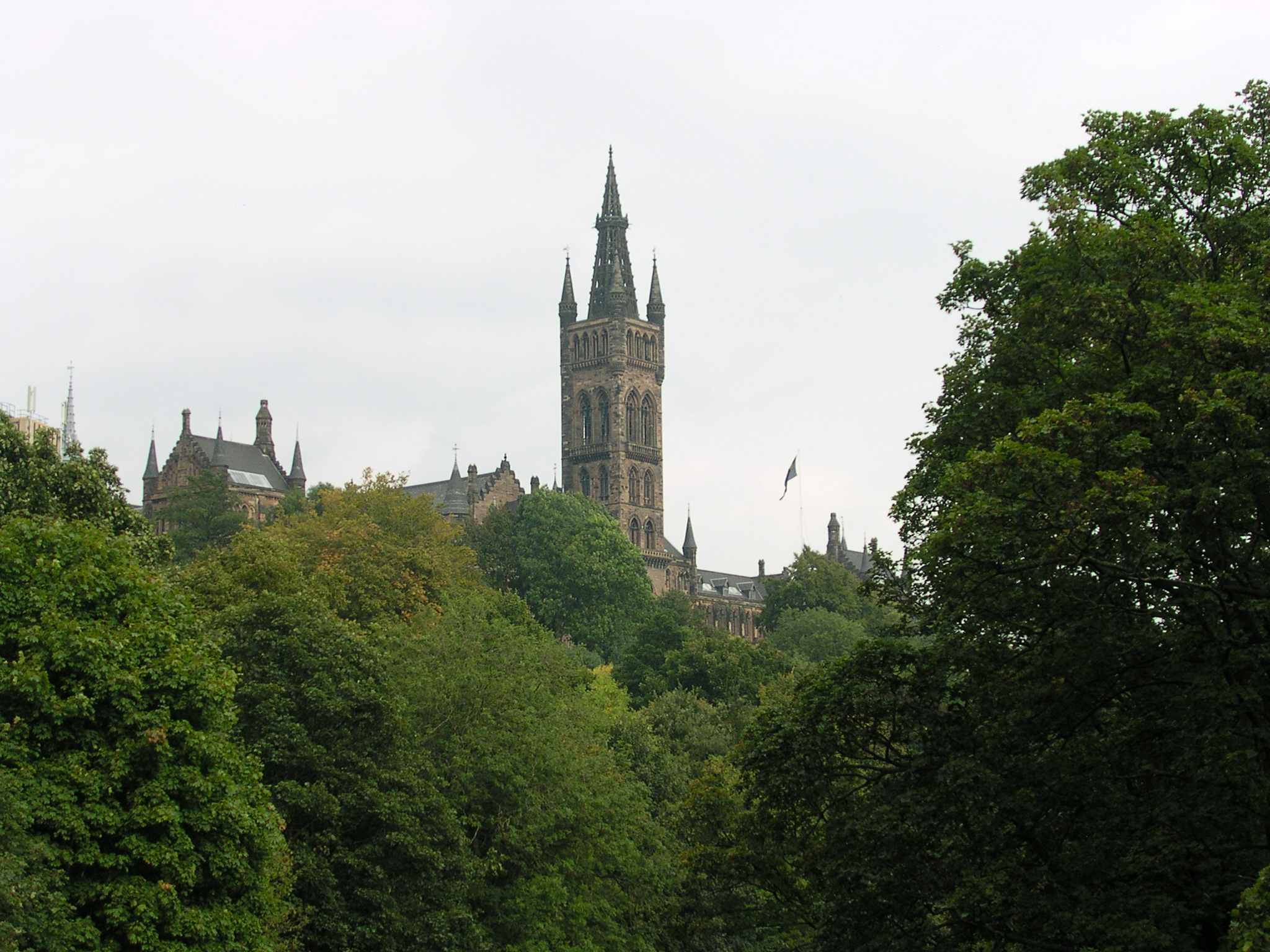 University of Glasgow old building